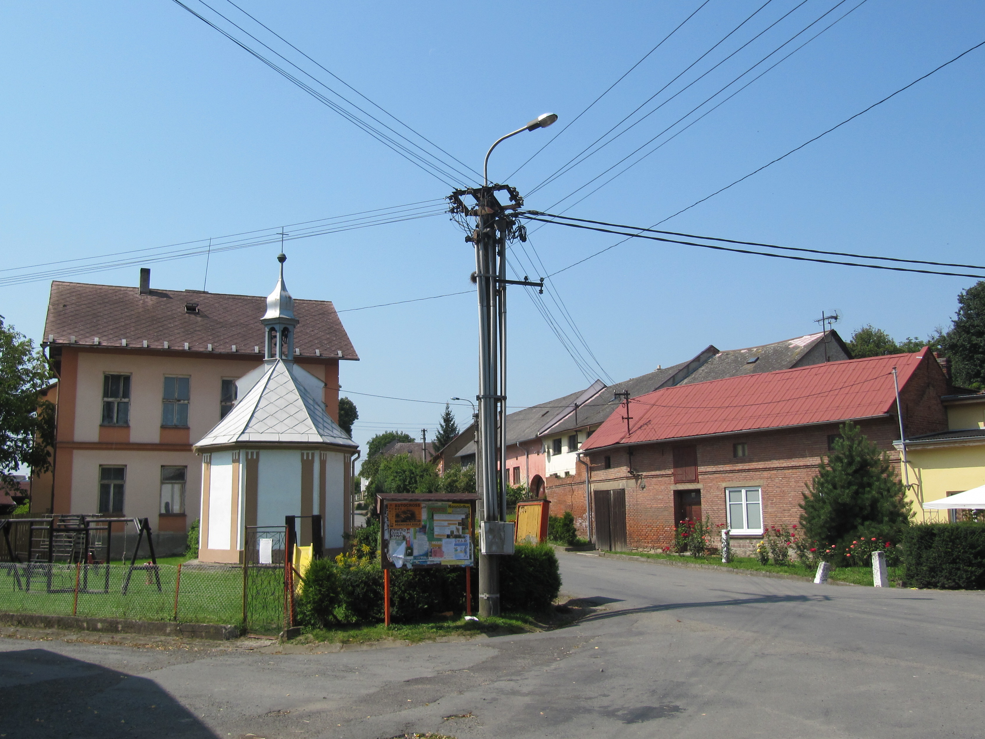 Nelešovice, Czech Republic, Přerov District. Center of the village with the chapel from 1781. This photograph was taken within the scope of the third year of the 'Czech Municipalities Photographs' grant.